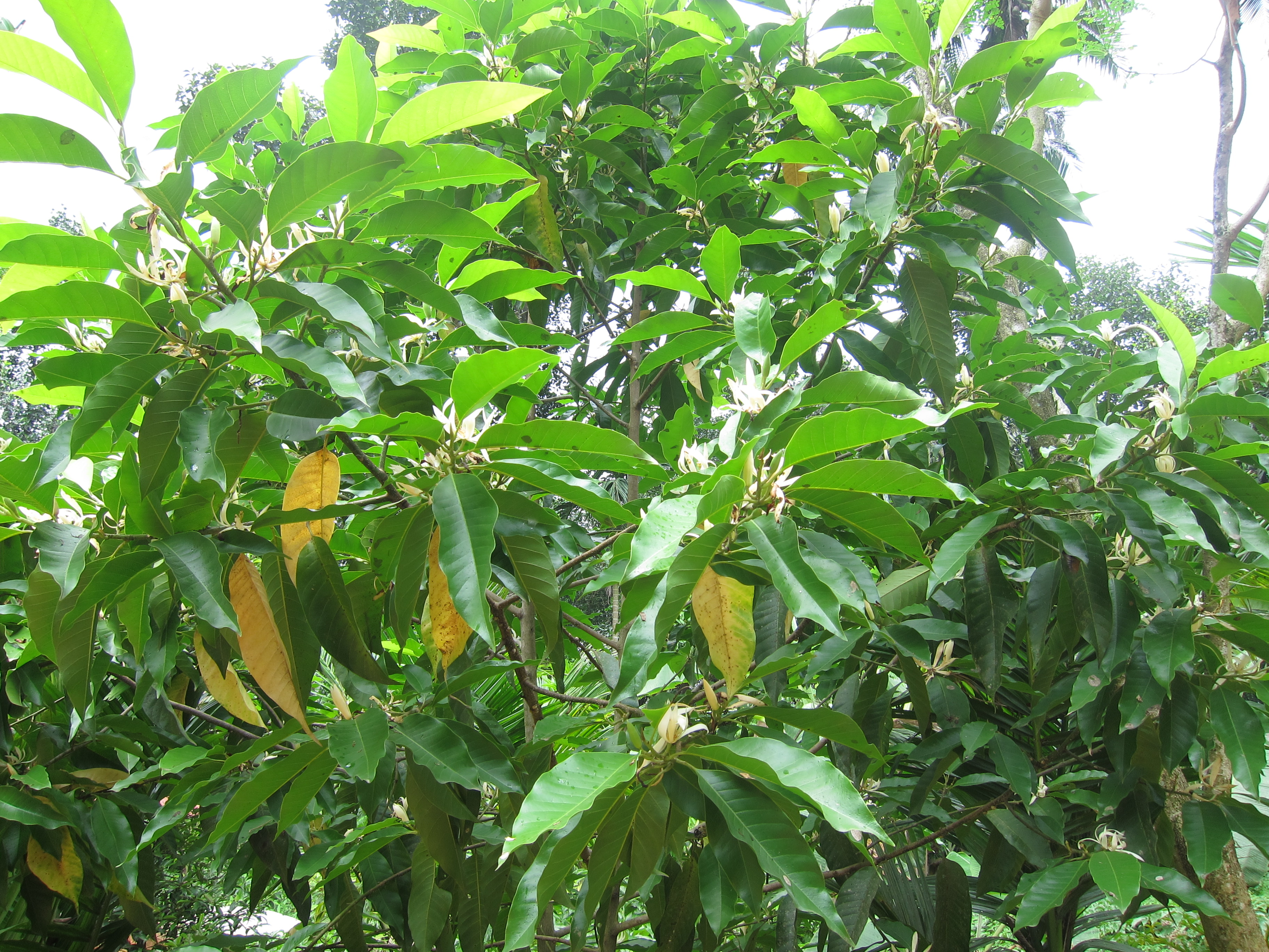 Champak (Champa) Michelia champaca